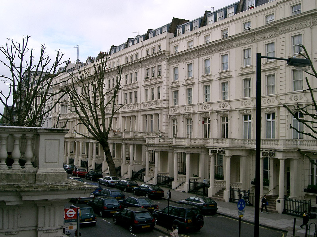 Summary: Example of Georgian houses in Bayswater, London. Author: edwin11_79's